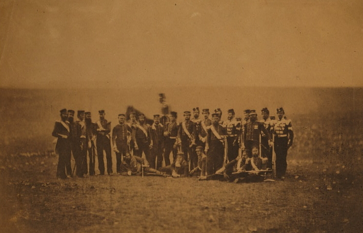 Group portrait of officers of the 88th Regiment.